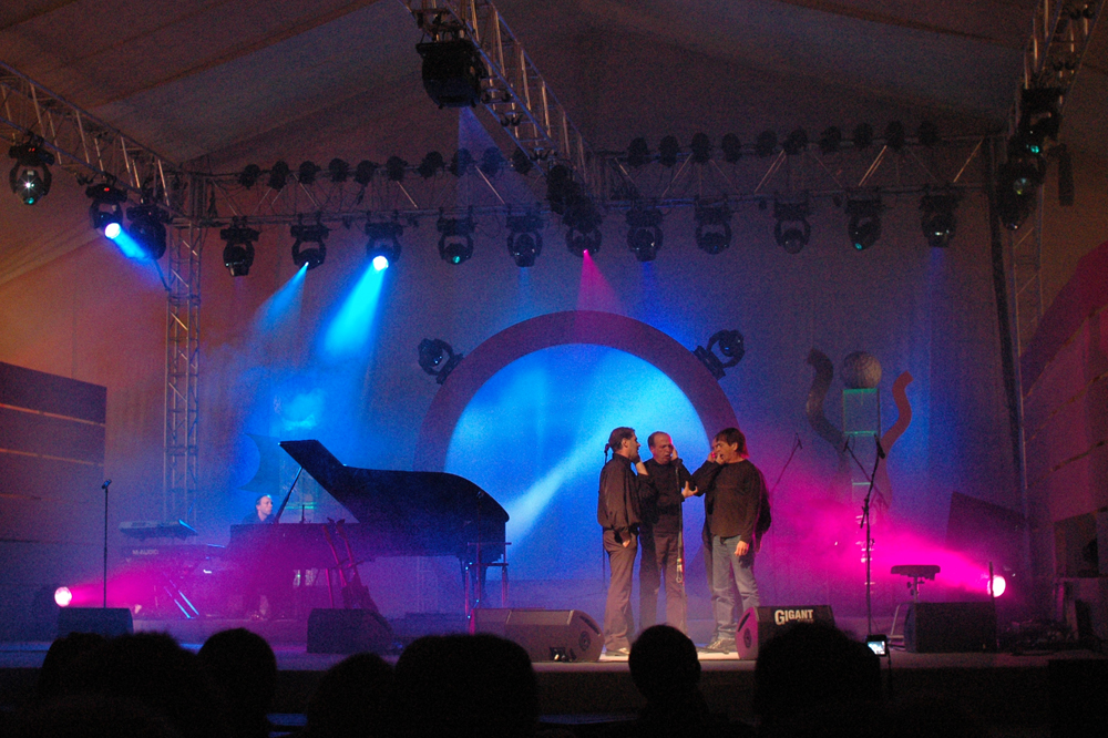 Musical group I Muvrini from Corsica performing in Warszawa, Poland